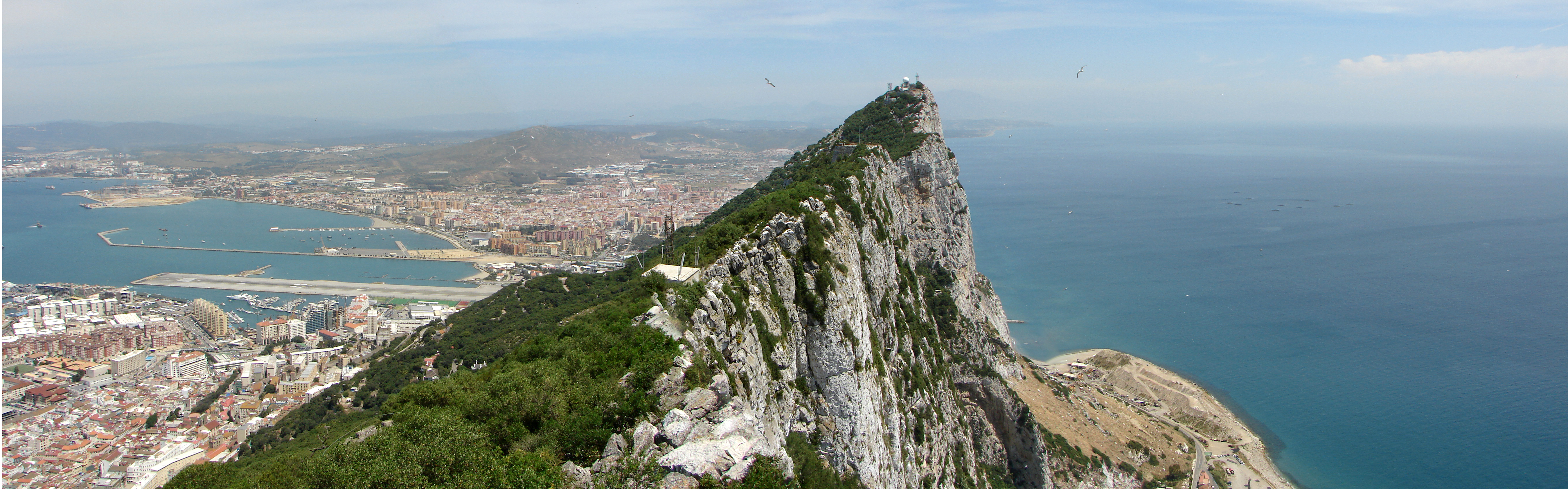 A panoramic view from the top of the Rock of Gibraltar (Gibraltar), looking north.